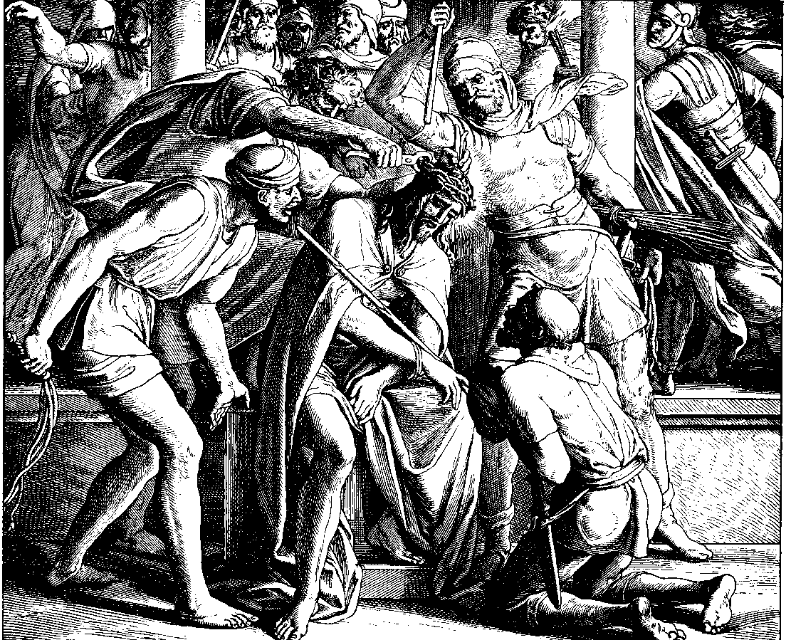 Woodcut for "Die Bibel in Bildern", 1860.